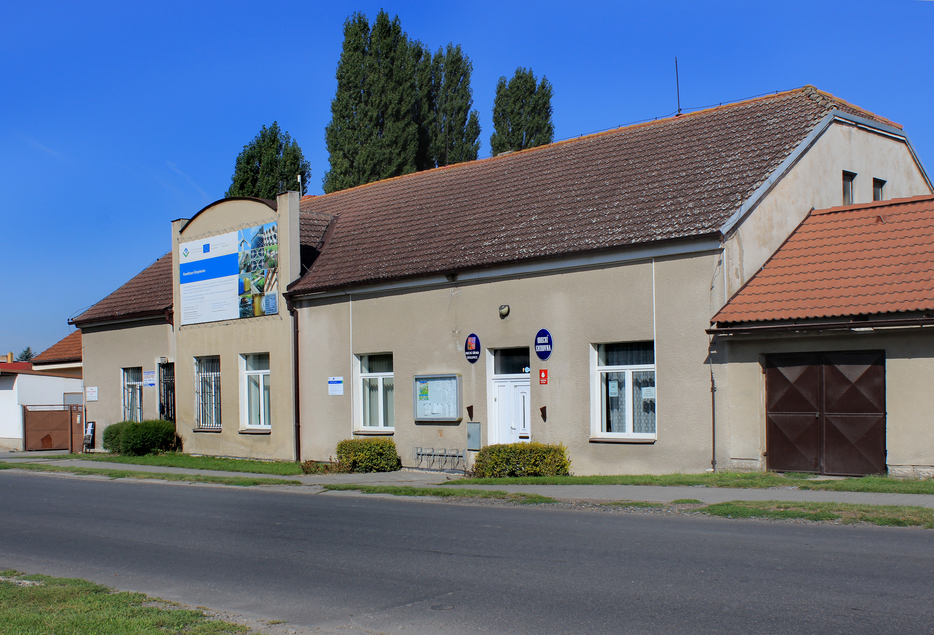 Municipal office in Úmyslovice, Czech Republic.